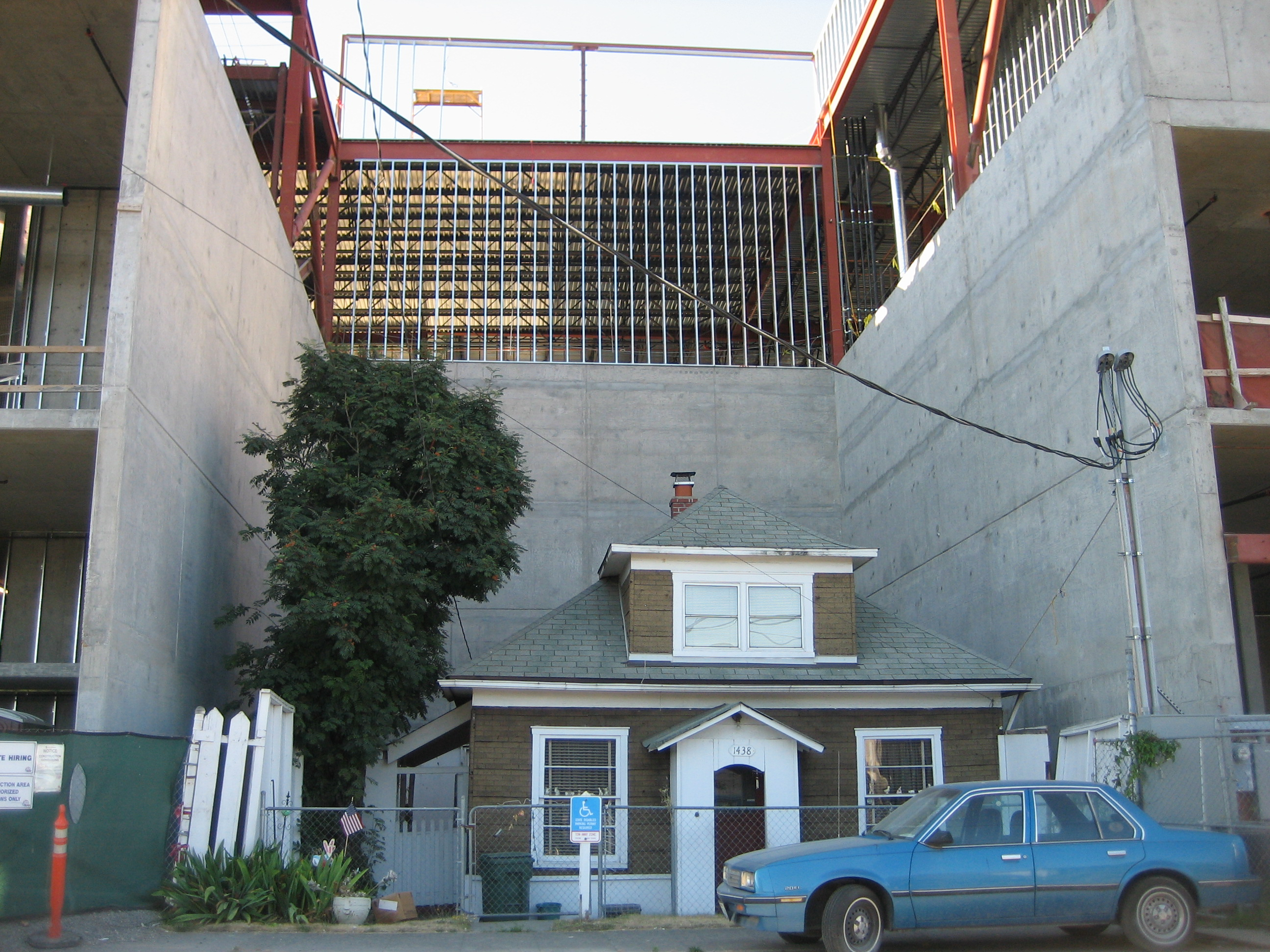 Edith Macefield refused to sell her house, at 1438 NW 46th St Seattle, WA 98107, to developers, so the condo was built around it.